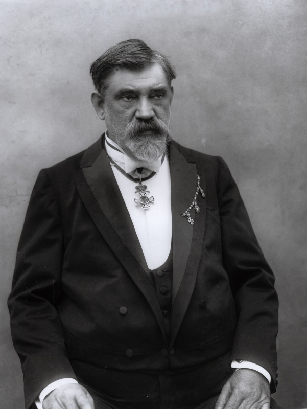 Portrait of František Křižík taken by Šechtl and Voseček studios in Tábor, most likely in 1902 during construction of electric railway from Tábor to Bechyně.